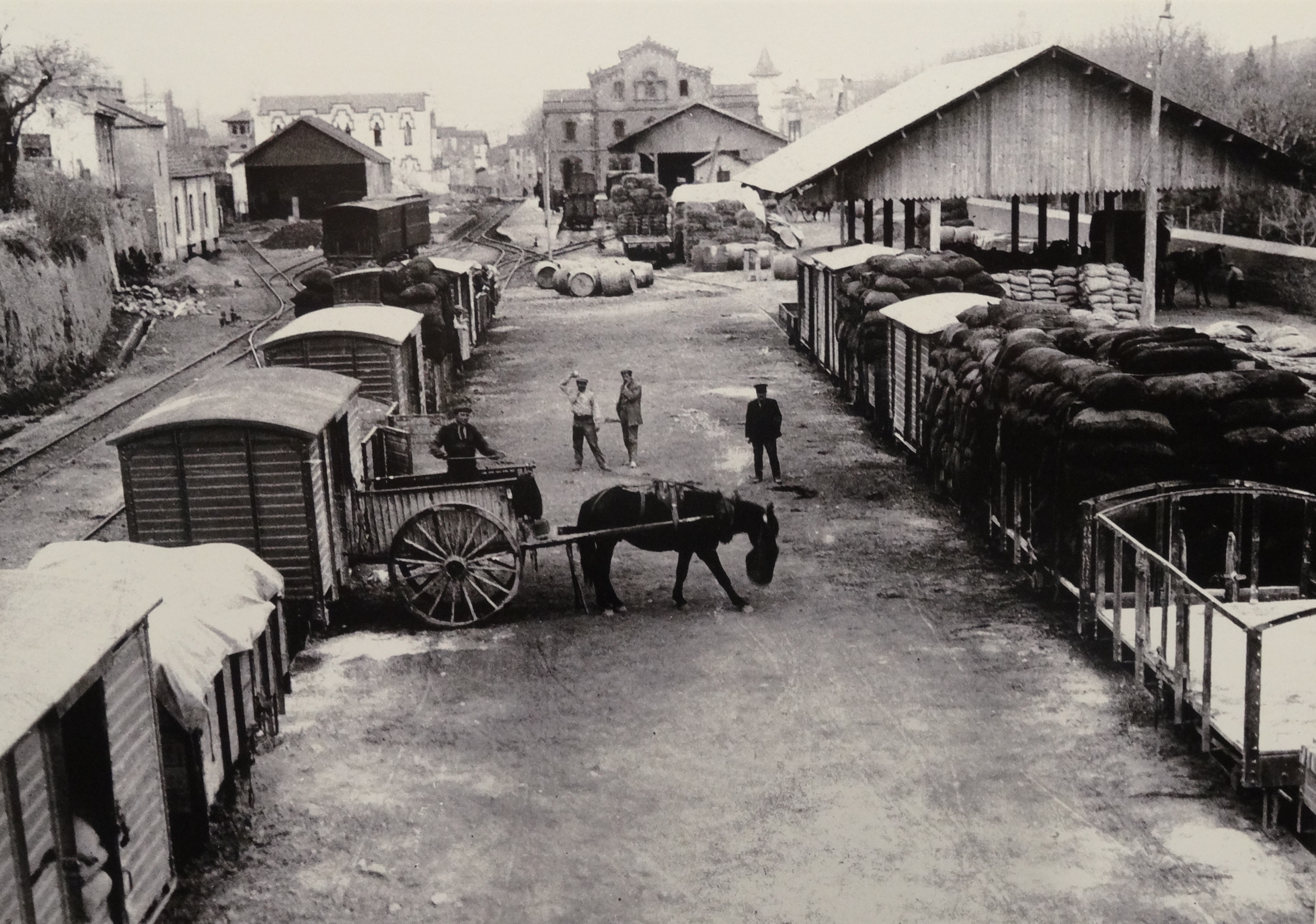 Loading are behind the Igualada train station (year 1924)